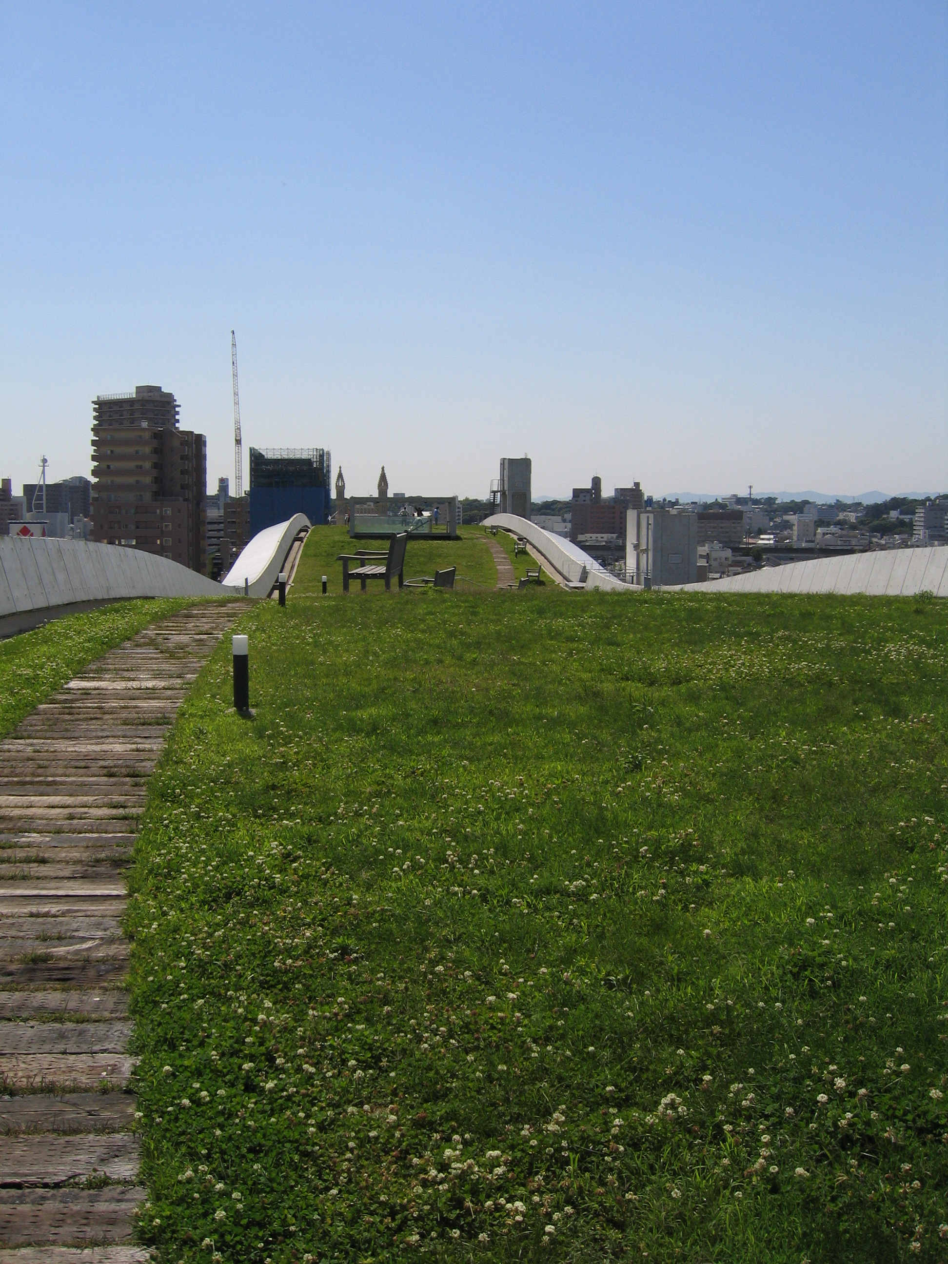 The undulating roof garden on top of one of the buildings of the Shizuoka University of Art and Culture in Hamamatsu, Japan. Photograph taken by Mark J. Nelson in June 2004.